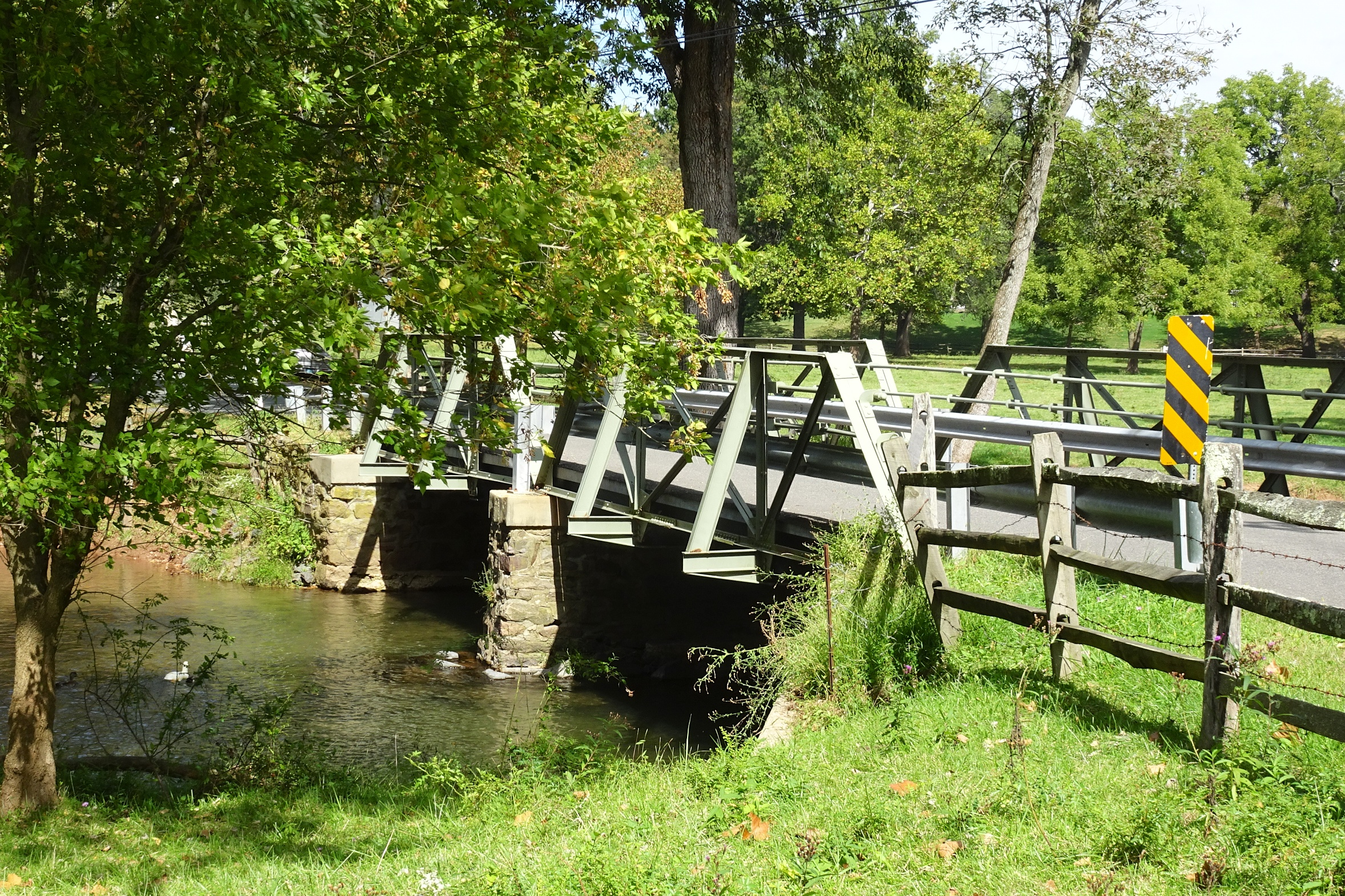 Two span riveted Pratt half hip pony truss bridge for Mill Road over the Rockaway Creek in Whitehouse, NJ. Contributing property. Built circa 1905 date QS:P,+1905-00-00T00:00:00Z/9,P1480,Q5727902.